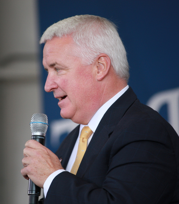 Tom Corbett at the McCain rally at the Greater Pittsburgh International Airport